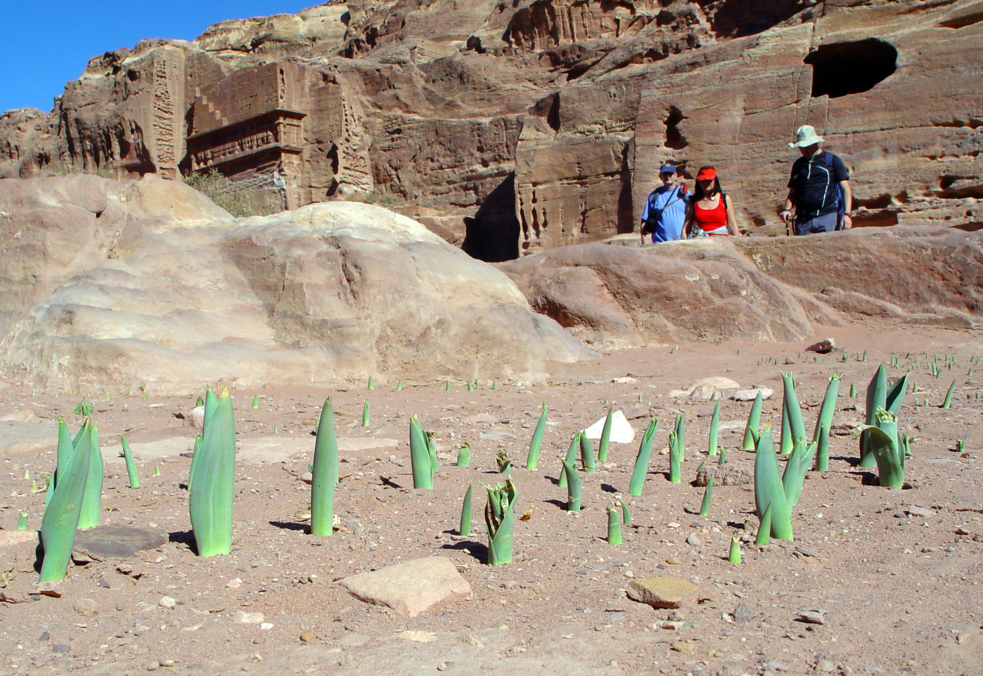 Urginea maritima bulbs in Petra (Jordan) in early December (2010)